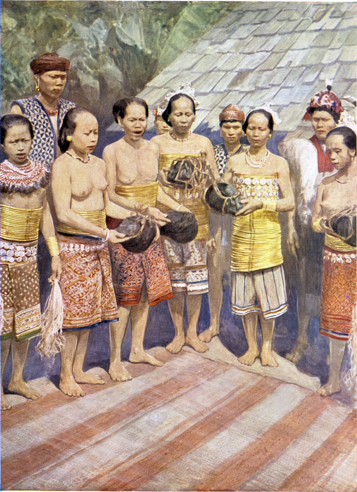 Dayak women dancing with human heads. A few days after the return of a successful head-hunting expedition, the heads, which have been hacked off the dead bodies, are brought triumphantly into the house. Then follows a time of rejoicing, in the course of which the heads are taken by the woman who, having performed fantastic dances, hang them beside the old ones. The presence of heads in the house is supposed to attract the beneficent spirits who abide around them, provided they are properly respected.